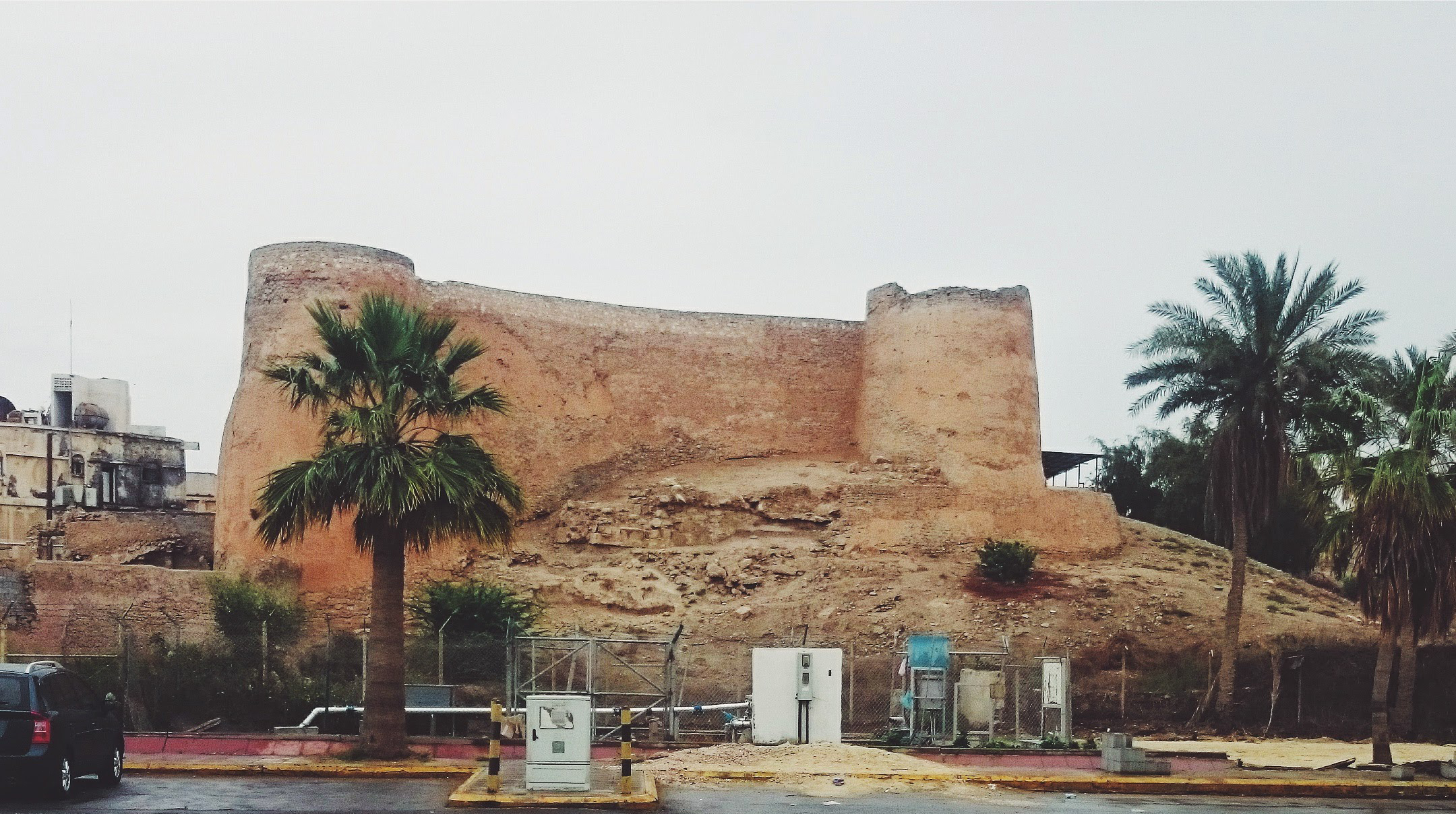 Tarout castle